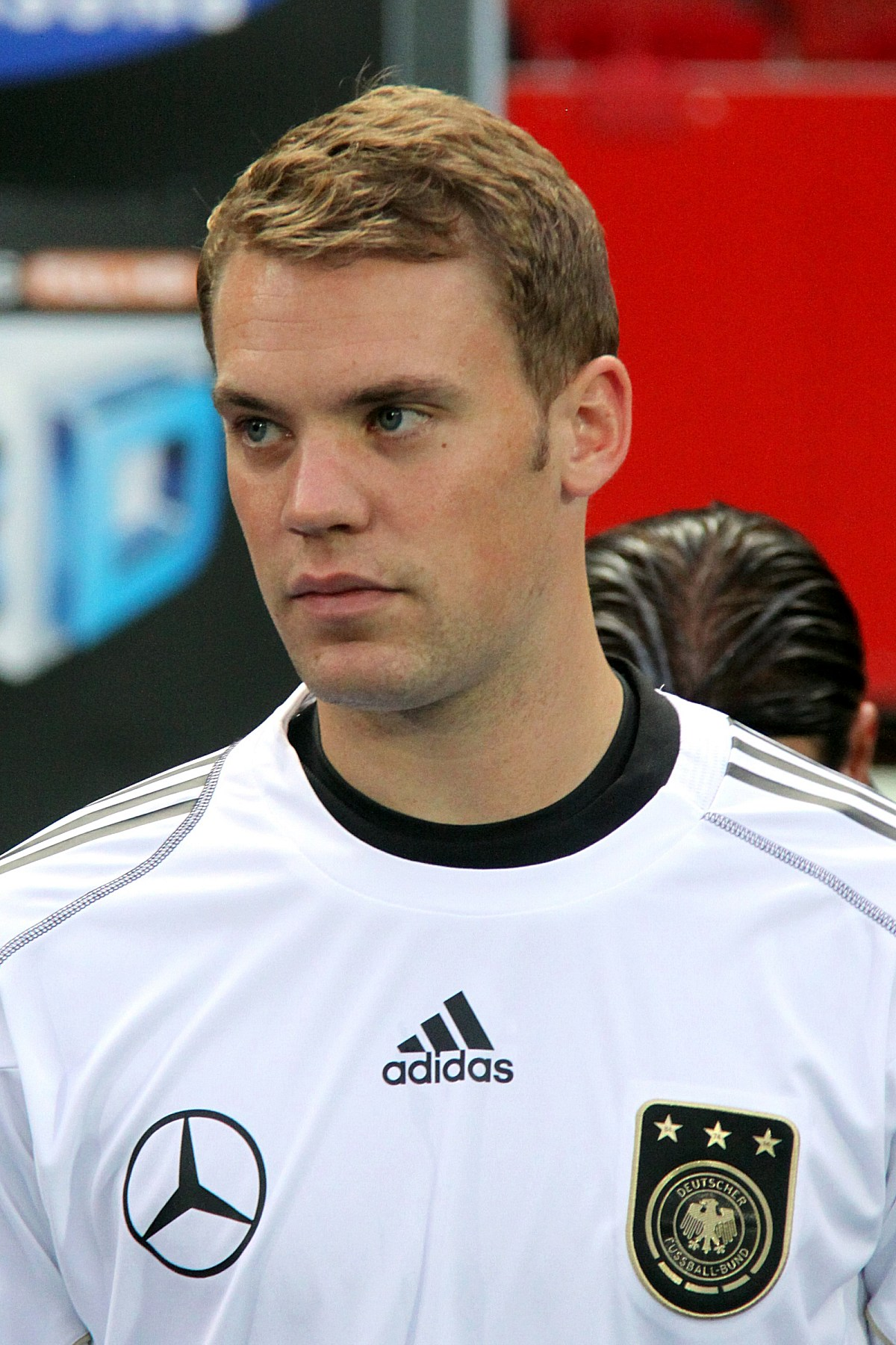 Manuel Neuer (FC Schalke 04 / FC Bayern München), german national football team